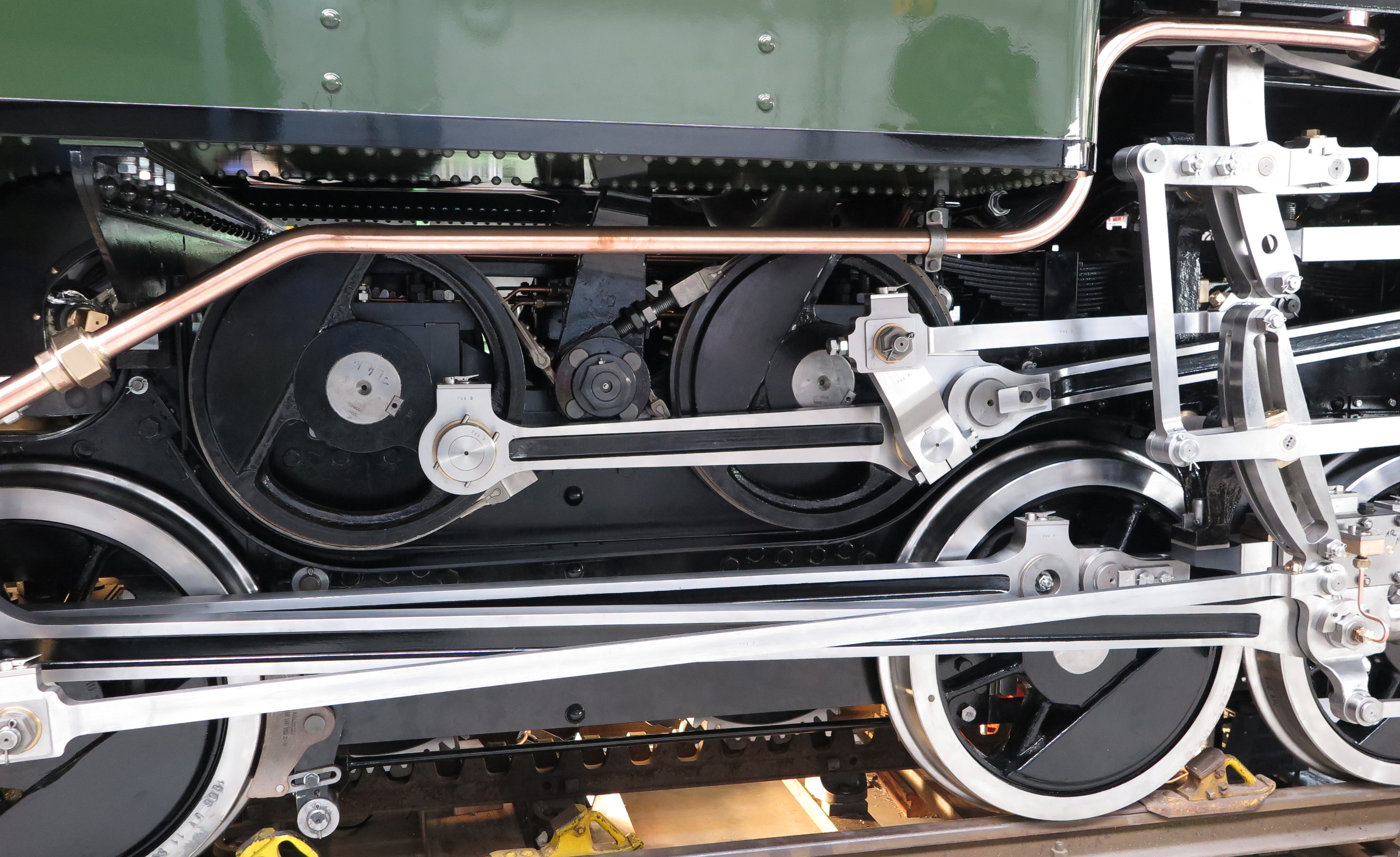 Engine 704 in Uzwil, view onto the gear wheel drive intermediate shaft and band brakes